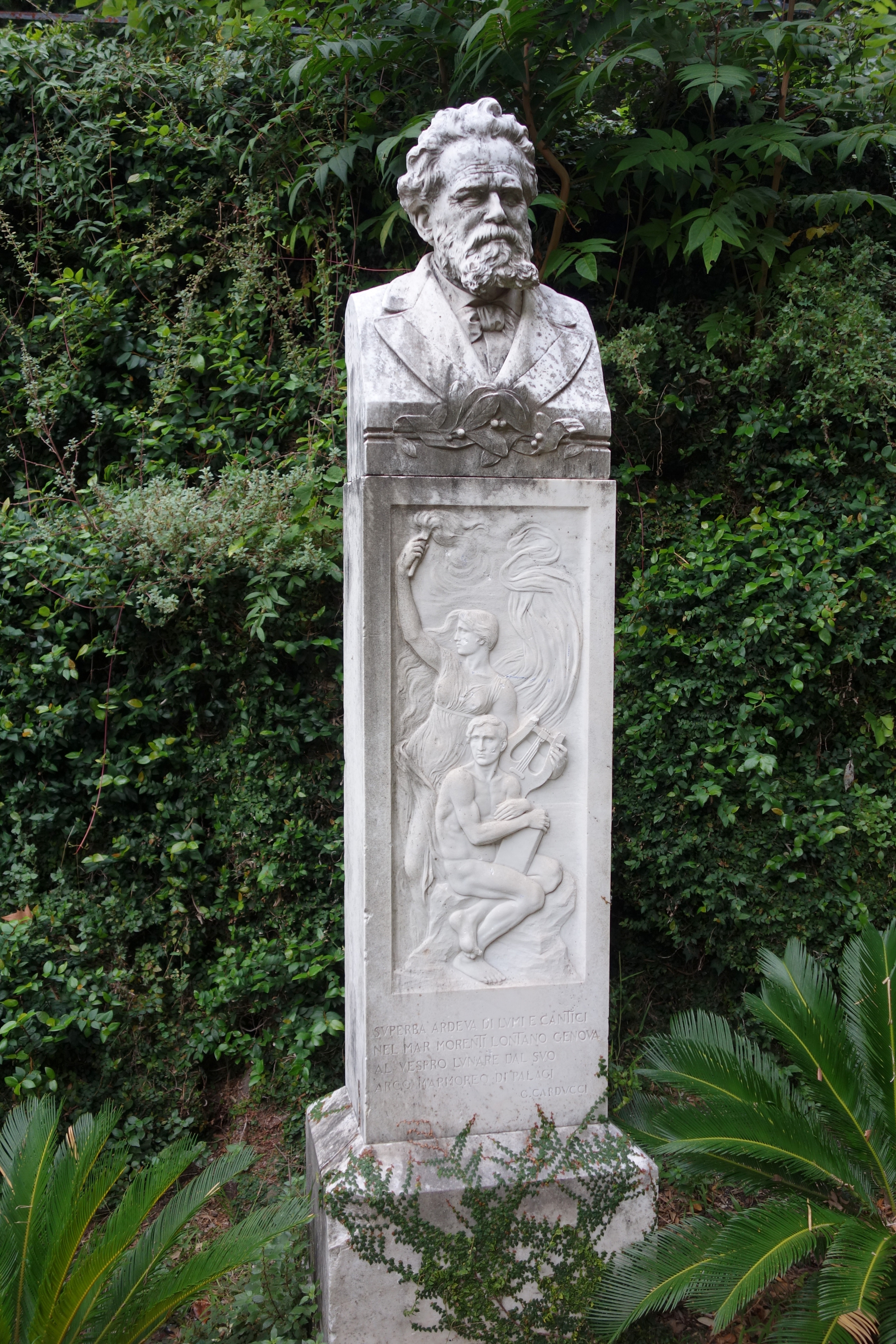 Memorial bust in the Villetta Di Negro (Genoa, Italy). This artwork is old enough so that it is in the public domain.